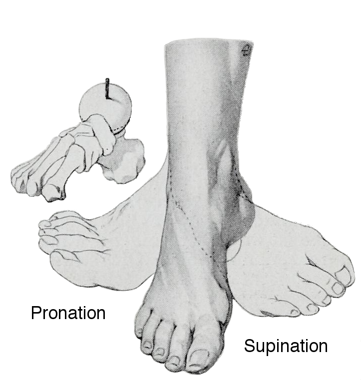 An anatomical illustration from the 1921 German edition of Anatomie des Menschen: ein Lehrbuch für Studierende und Ärzte with latin terminology.